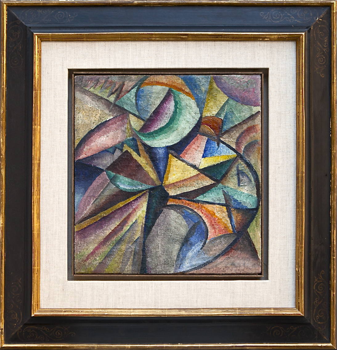 "Composition N2" by Alexander Bogomazov, 1914-1915